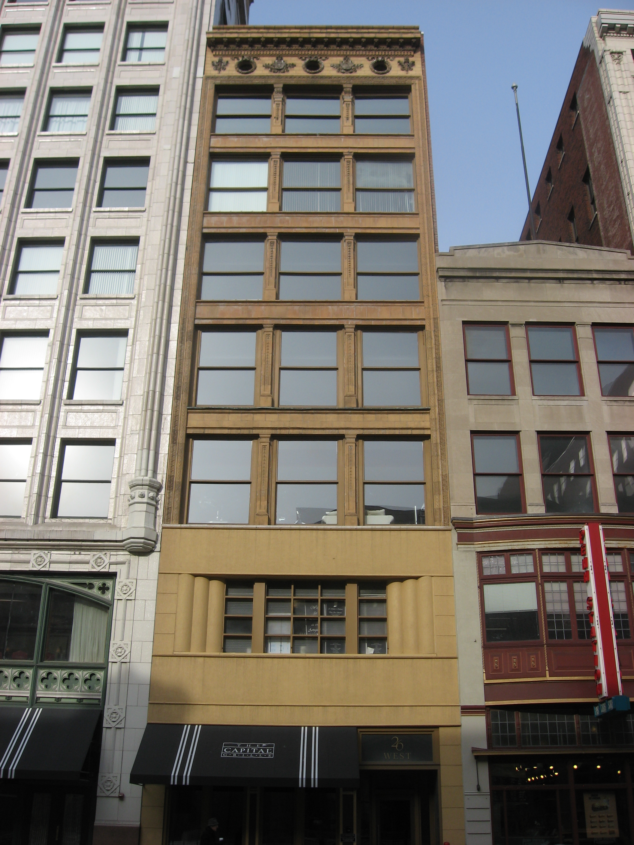 Front of the former Taylor Carpet Company Building (now a restaurant), located at 26 W. Washington Street in downtown Indianapolis, Indiana, United States. Built in 1897, it is listed on the National Register of Historic Places, and it is a part of the Register-listed Washington Street-Monument Circle Historic District.